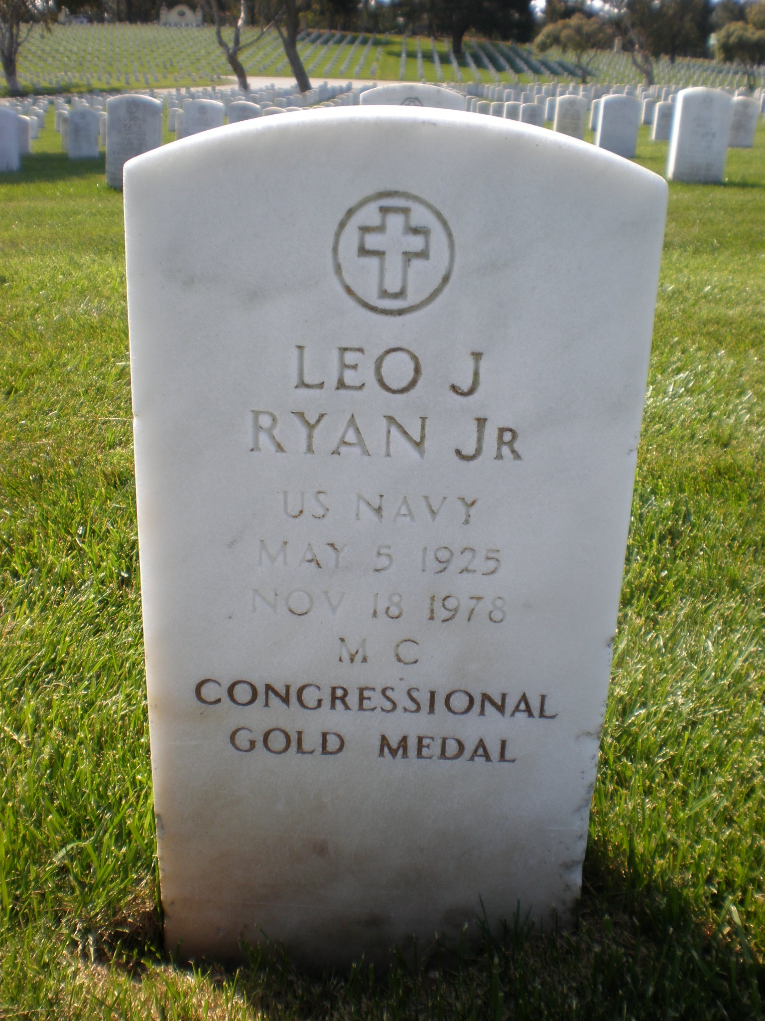 The headstone of Congressman Leo J. Ryan in section C of Golden Gate National Cemetery in San Bruno, California.